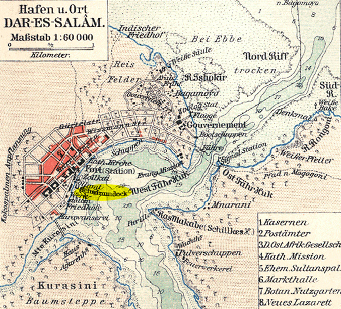 harbour and old town Dar es Salaam (1905) with the floating dock (yellow)